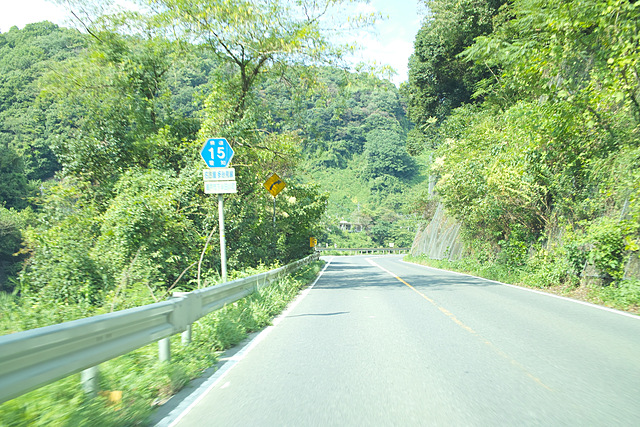 The Aichi Prefectural Road and Gifu Prefectural Road Route 15 in Seto City